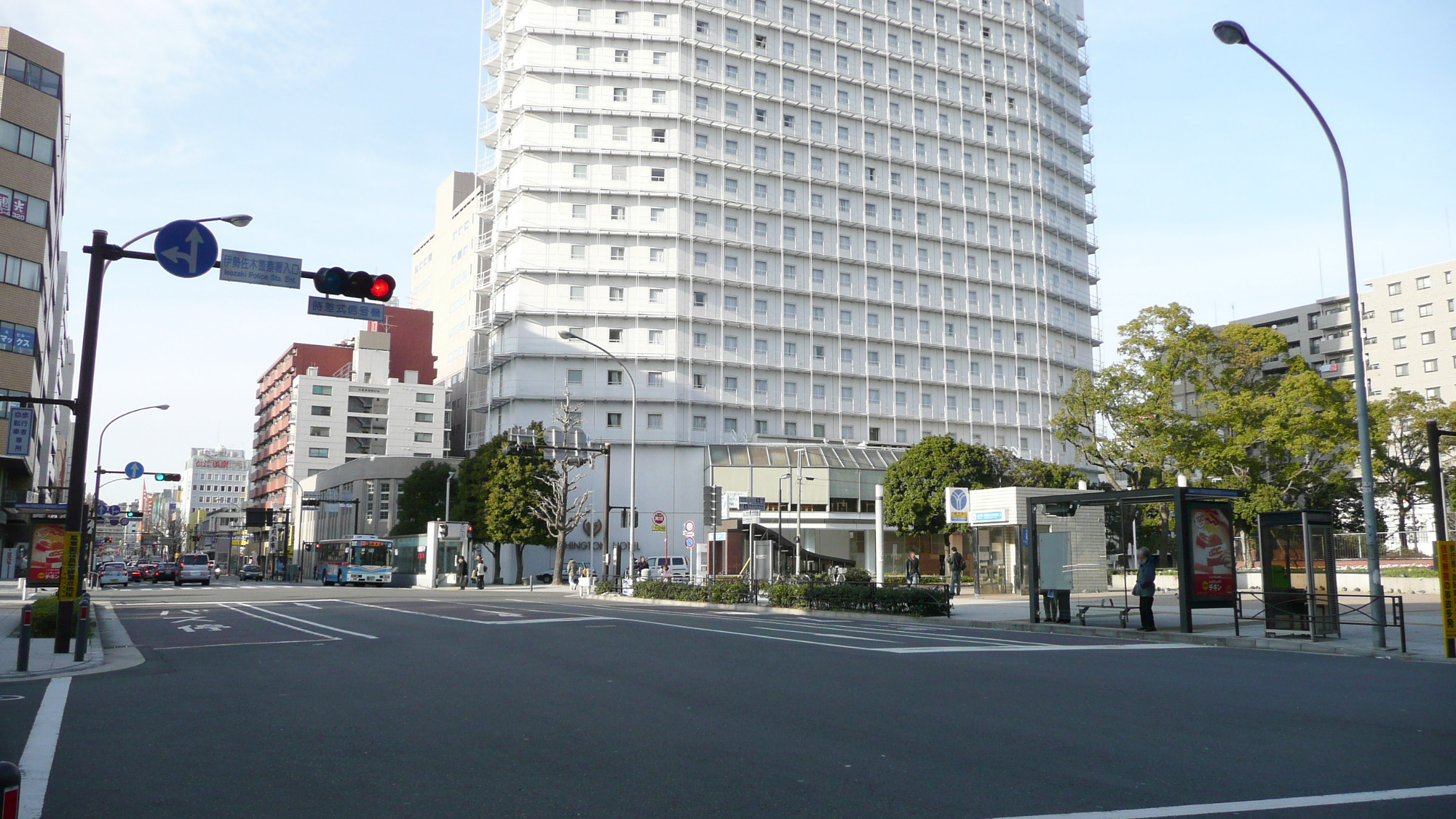 Isezaki_Police_Station_entrance_crossing,Yokohama,Kanagawa. / 神奈川県横浜市伊勢佐木警察署入口交差点（横浜市営地下鉄ブルーライン伊勢佐木長者町駅上の交差点）